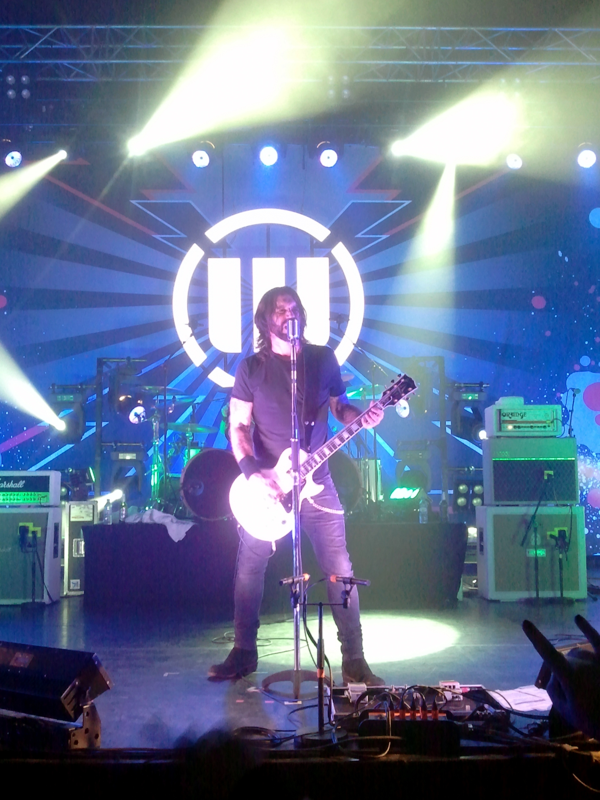 Stephan Weidner (Der W) in concert in Dresden